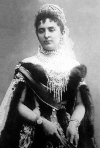 Grand Duchess Anastasia Nikolaevna of Russia, née Princess Anastasia of Montenegro ("Stana")